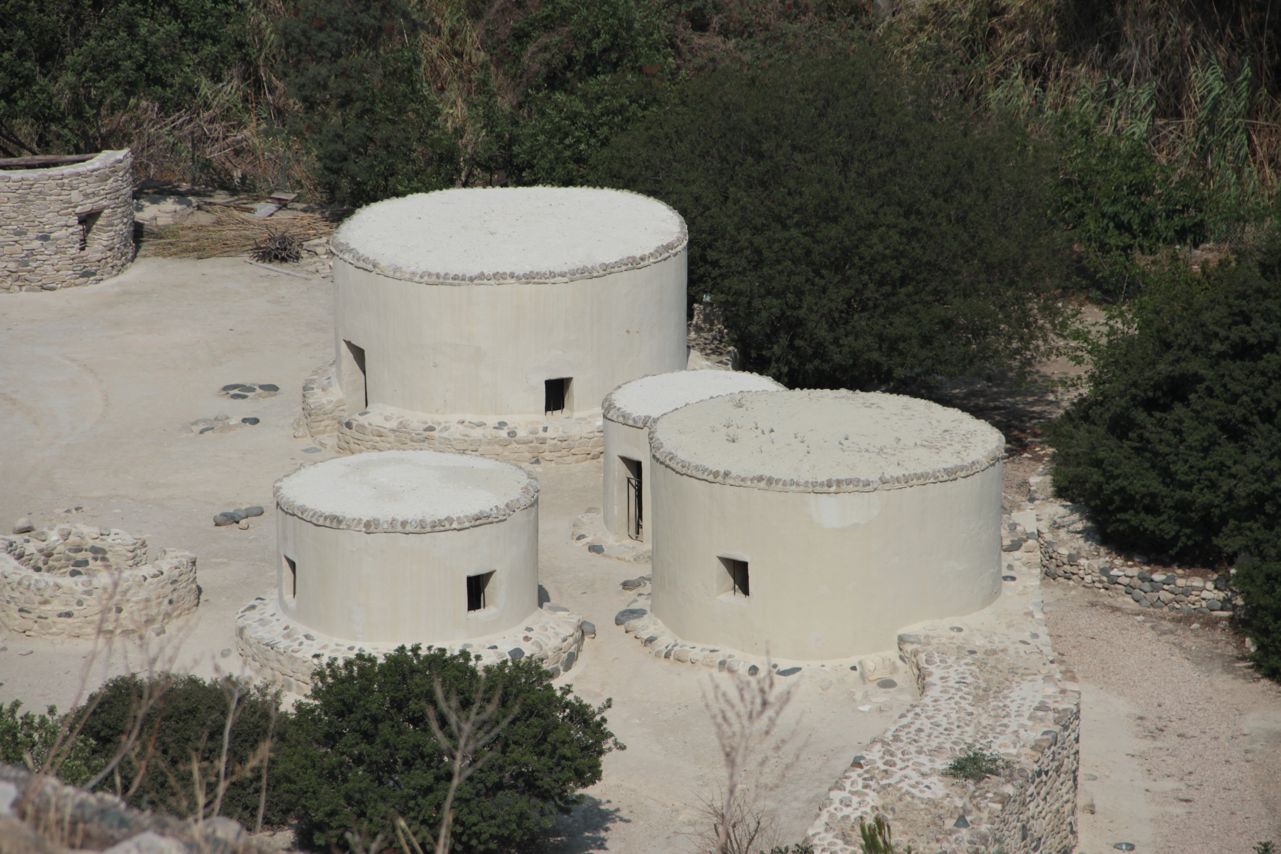 UNESCO world heritage site. Reconstructed circular structures from circa 6000 BC. Located approx 30Km SW of Larnaka, Cyprus